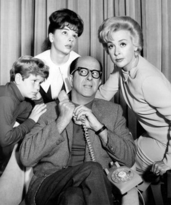 Publicity photo from The New Phil Silvers Show. Pictured are: Ronnie Dapo (his nephew, Andy), Sandy Descher (his niece, Susan), Elena Verdugo (his widowed sister, Audrey), and Phil Silvers (seated), as Harry Grafton.